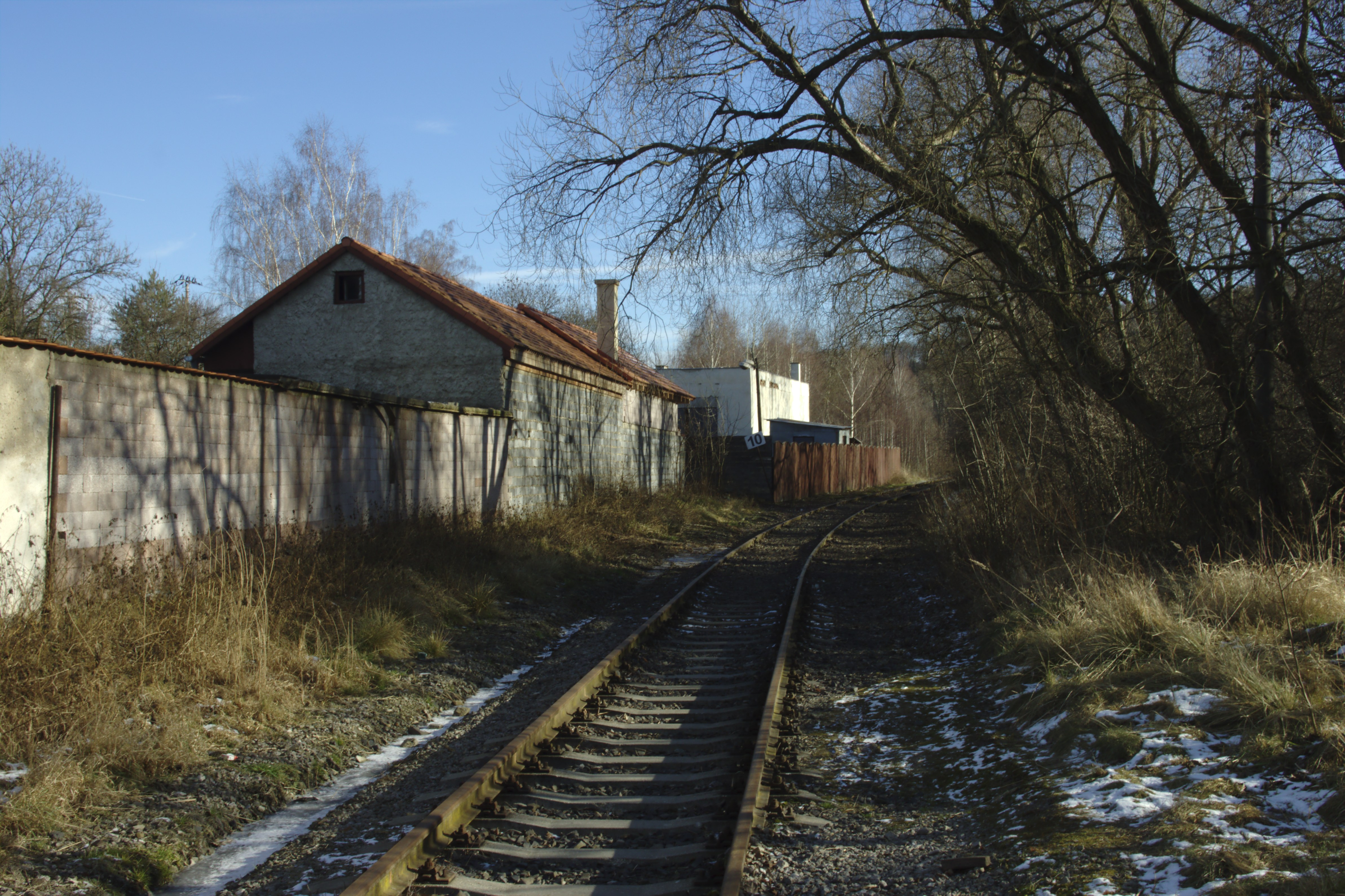 Tuhaň village - part of Vinařice, Central Bohemian Region, CZ. Mothballed railway line Kladno Dubí - Vinařice. View towards east from level crossing of Lesní street.